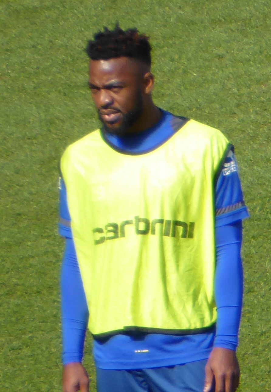 Jacques Maghoma of Birmingham City Football Club warming up before a match in April 2016